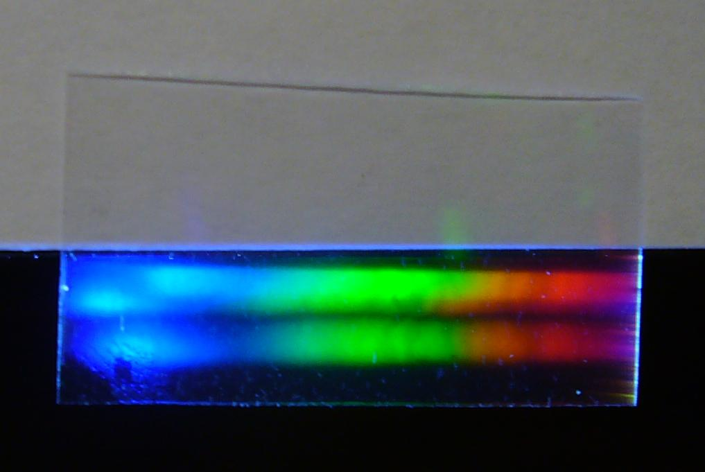 Transmission Phase Grating (1µm = 1000 lines/mm), size is about 1cm x 2cm. The grating is placed on the edge of a white table and lit from below by a torch.